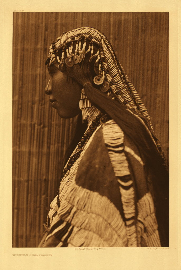 Wishham girl, profile